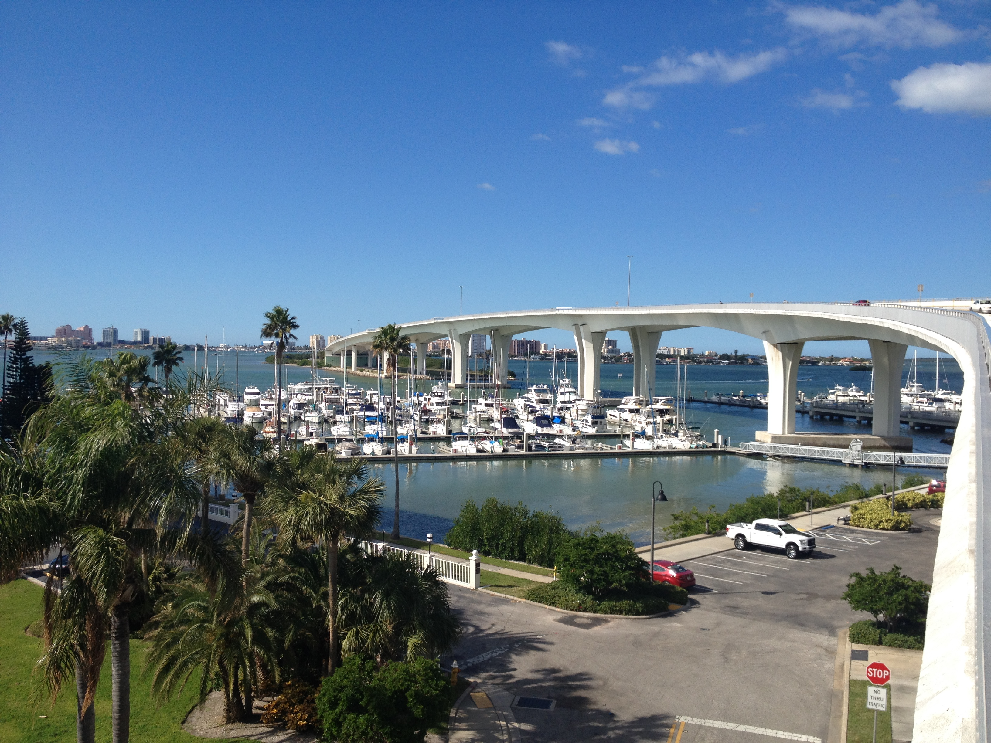 Main bridge of the Clearwater Memorial Causeway, viewed from the pedestrian/cyclist path on the north side of the bridge (image taken from the eastern approach looking west/northwest)